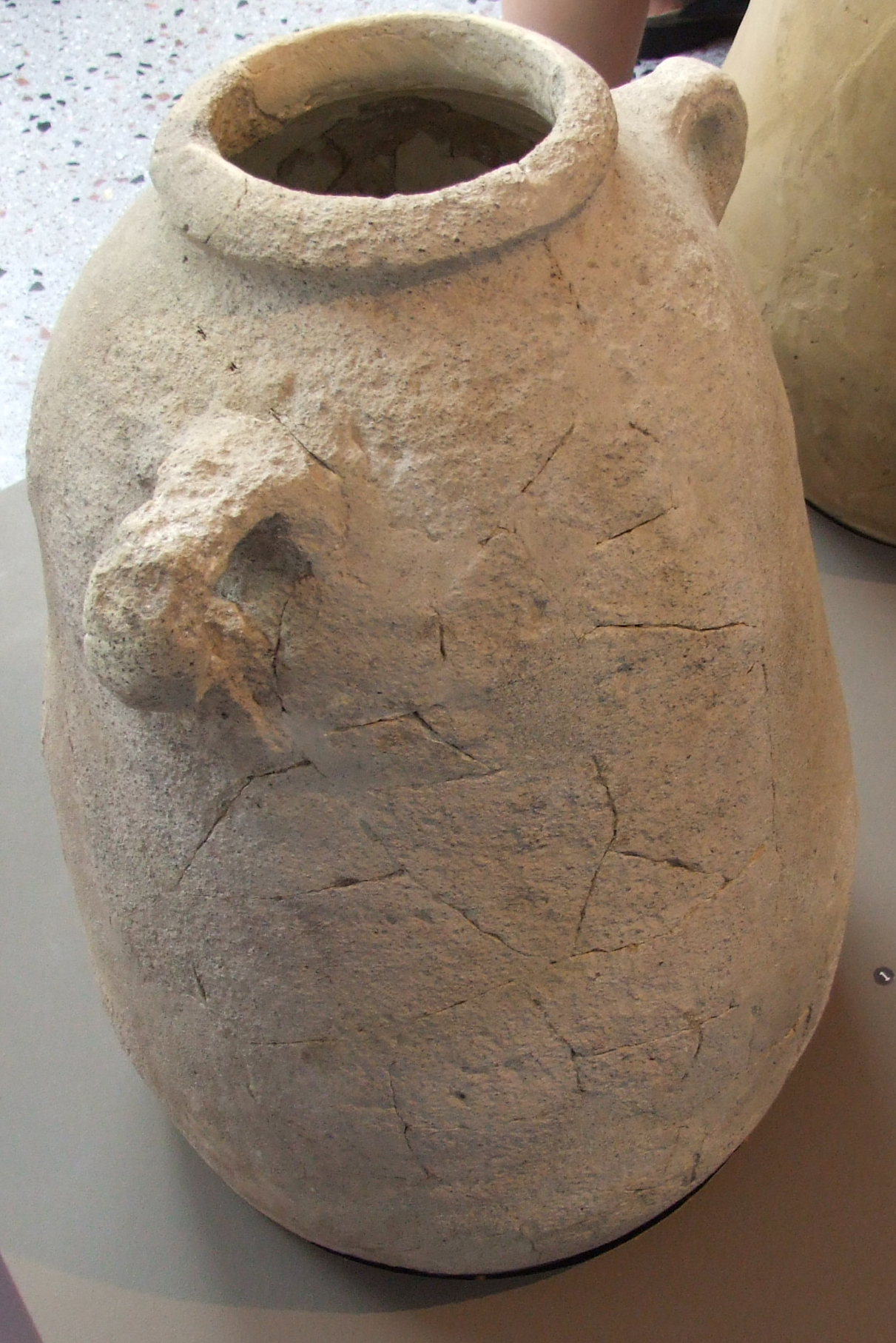 Ancient Roman amphore for the transport of alum